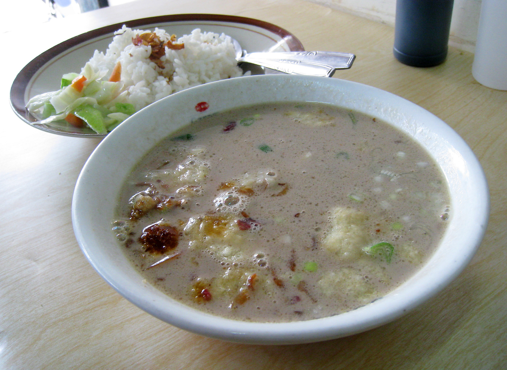 Soto Betawi with rice, served in a warung in Glodok area, Jakarta old town, Indonesia. Soto Betawi mainly beef meat and offals served in spiced milky soup.